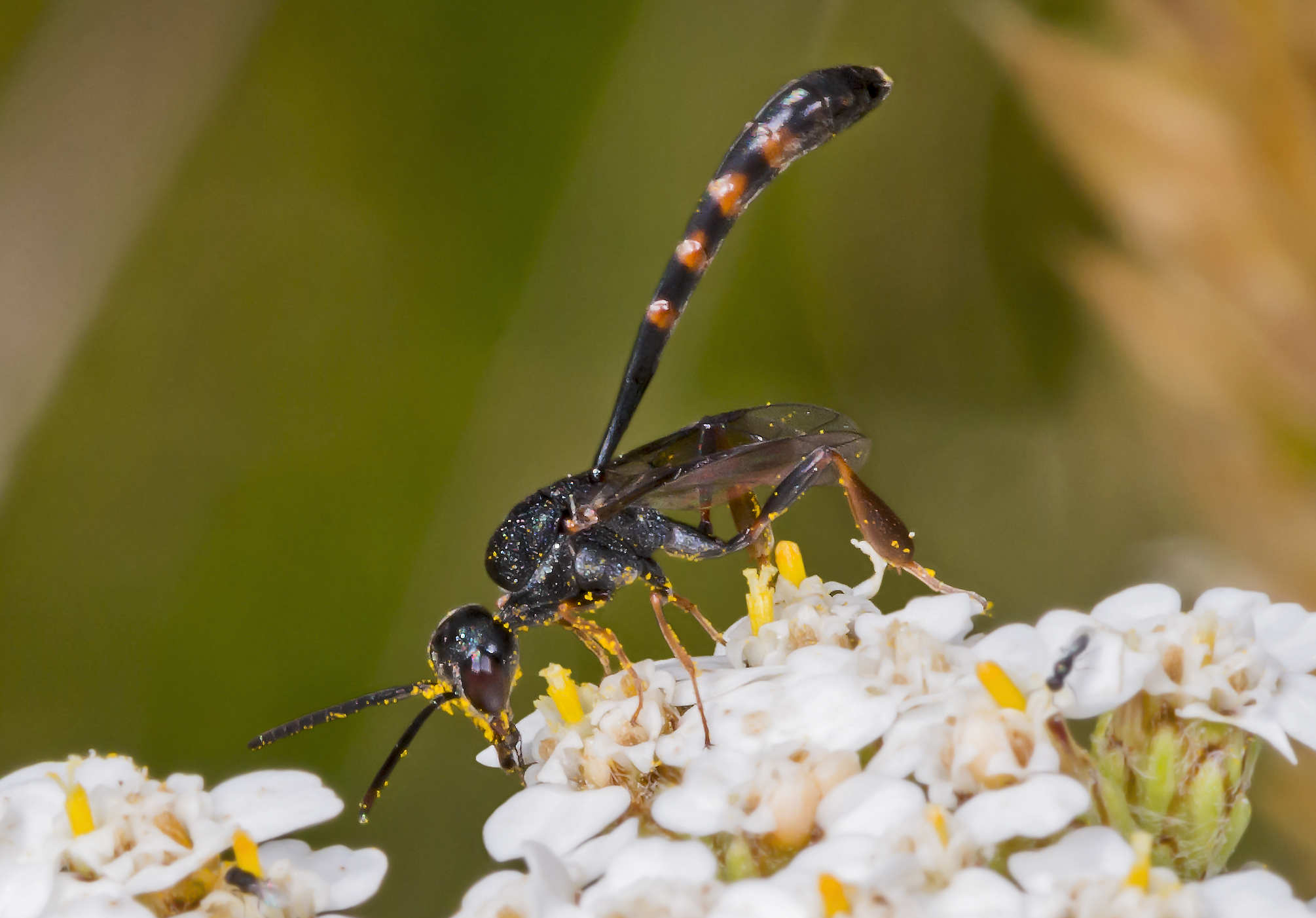 Gasteruption jaculator - Side view